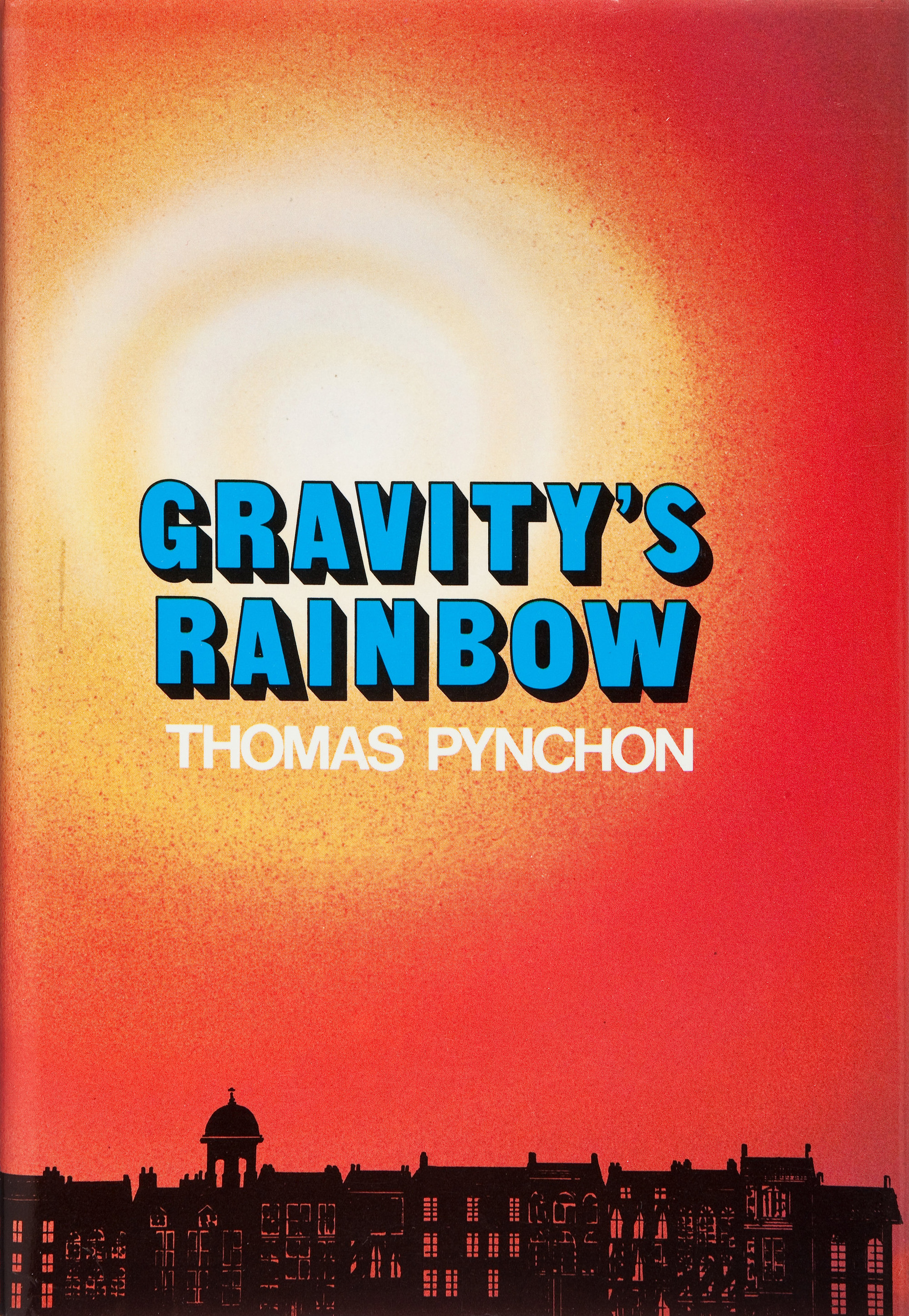 Cover design from the first-edition dust jacket of the 1973 novel Gravity's Rainbow by the American author Thomas Pynchon. Published by Viking Press.